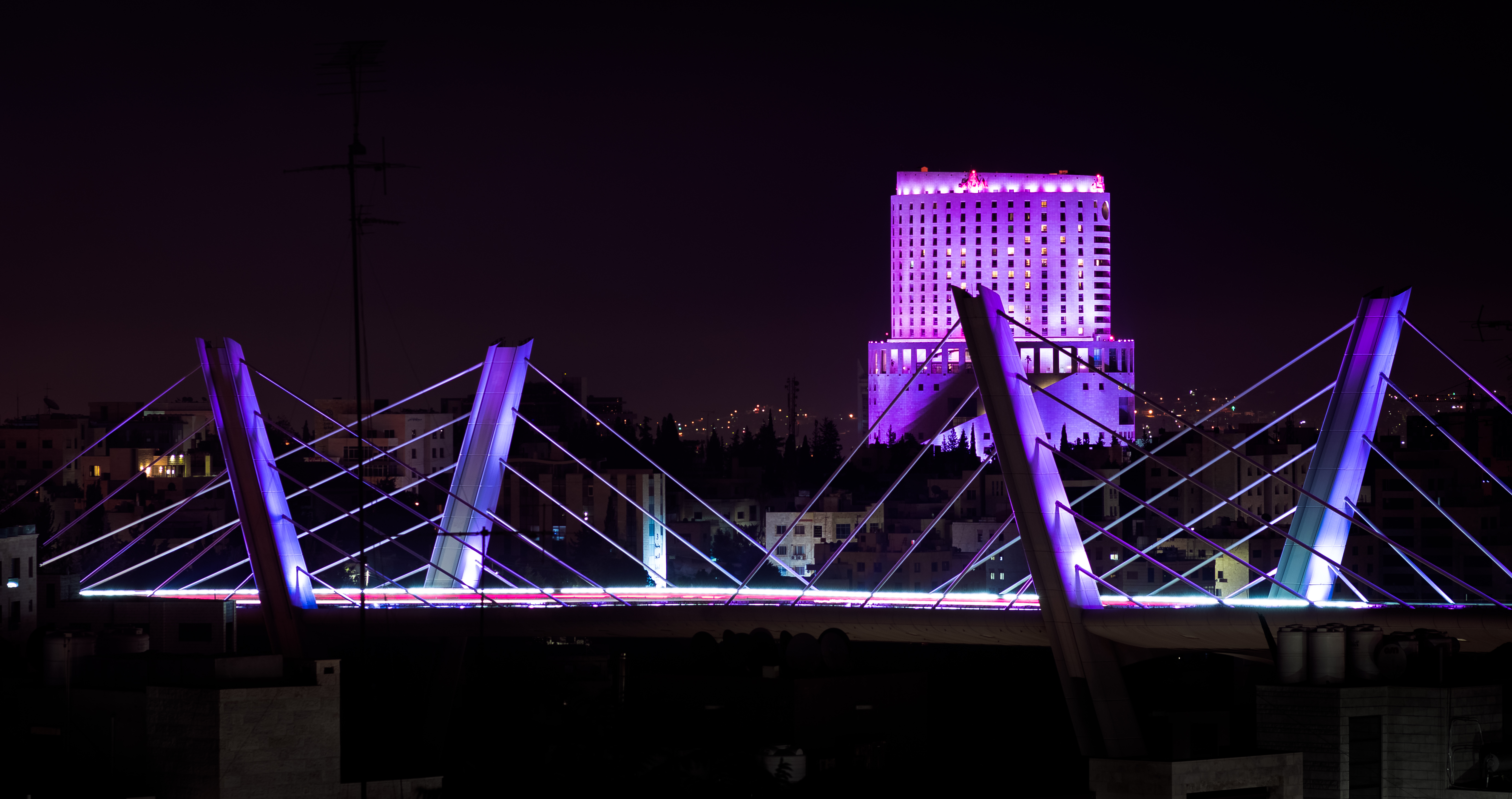 The magnificent Abdoun bridge as it appears in the night, in the background is the "Le Royal" Hotel.